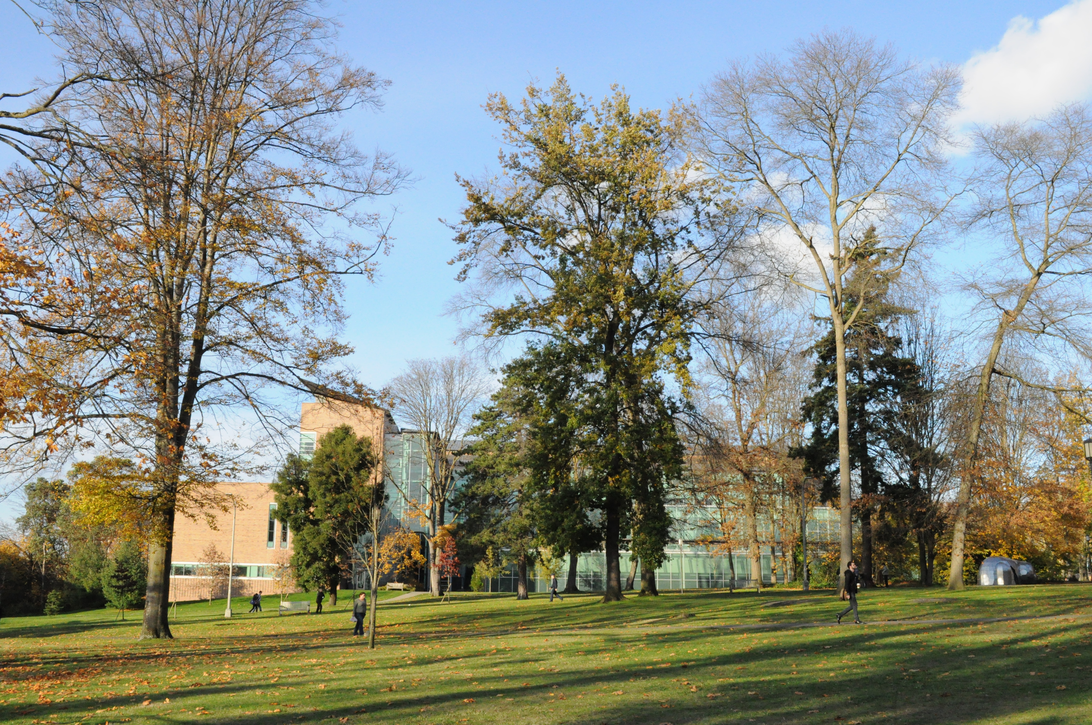 William H. Gates Hall, housing the Law School, University of Washington, Seattle, Washington.